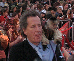 Picture of Geoffrey Rush from the Pirates of the Caribbean: At World's End premiere at Disneyland